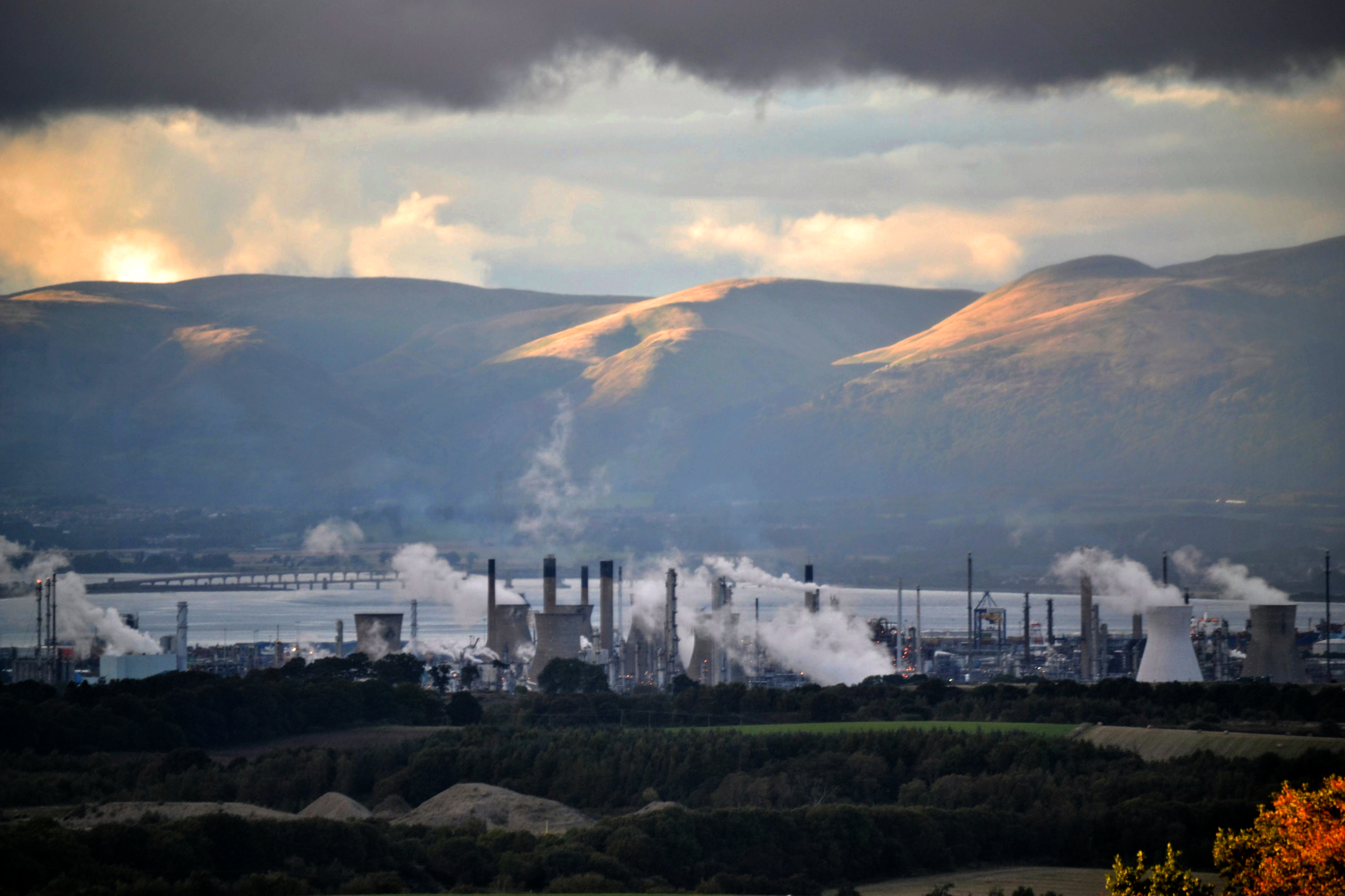 Photograph of Grangemouth oil refinery from the Bathgate Hills